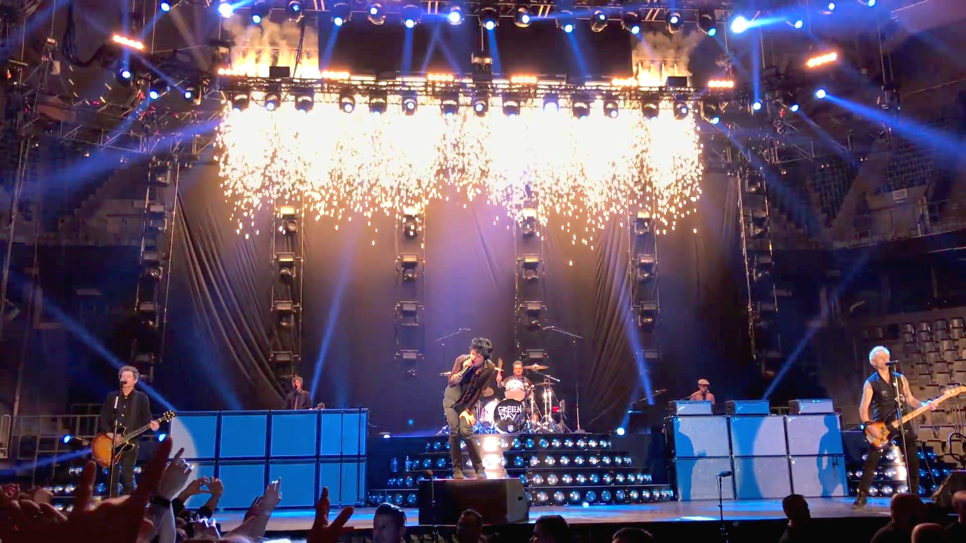 Green Day Live 2017 at Germany, Mannheim